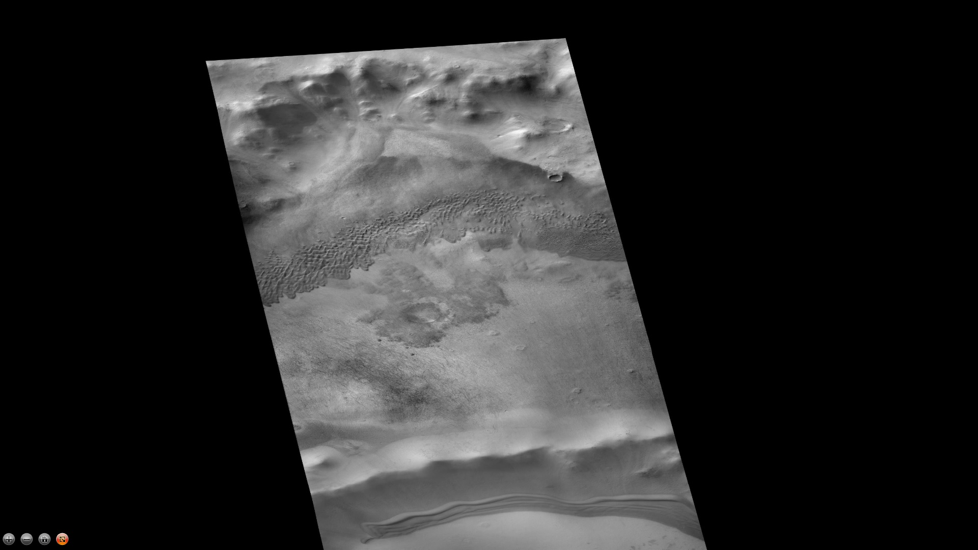 Keeler Crater, as seen by CTX. Southern wall in image is Trumpler with dunes. Note: Keeler is north of Trumpler.